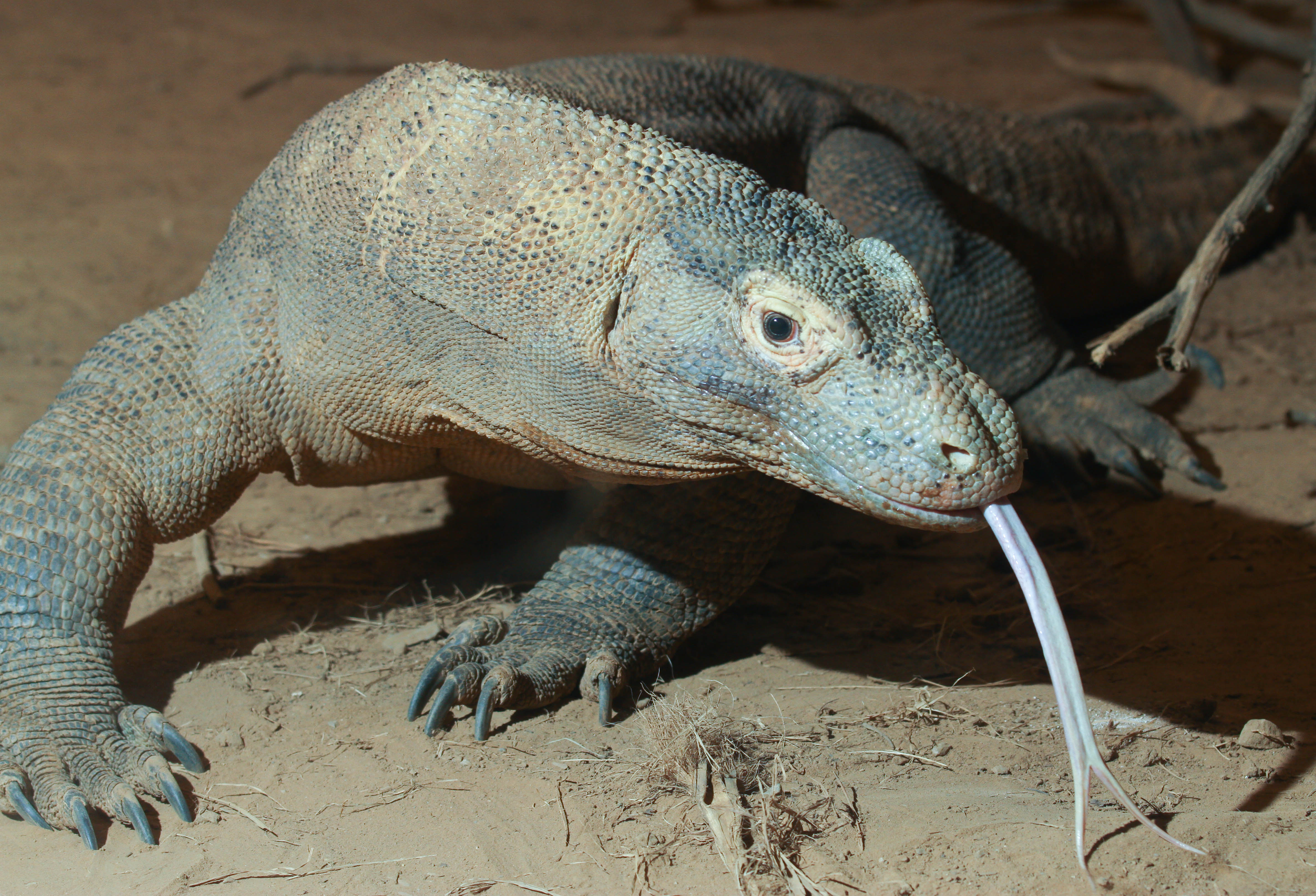 A Komodo dragon (Varanus komodoensis) sticks out his tongue at the Cincinnati Zoo.